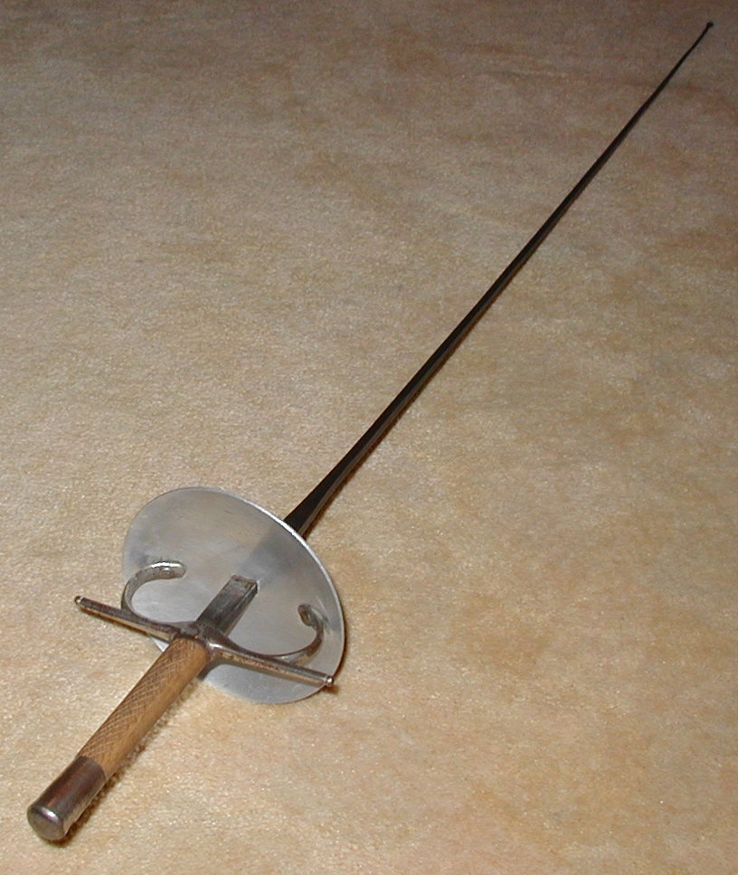 Foil as a whole. Picture taken and uploaded by Roger McLassus (the owner).